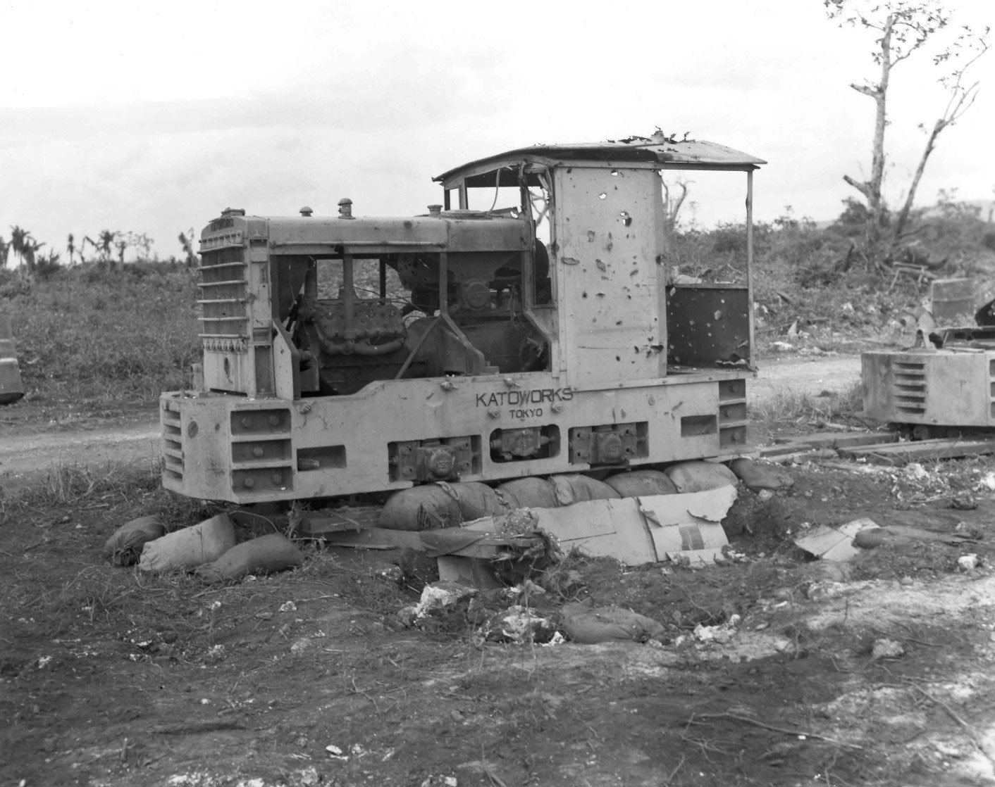 The initial landing took place on 21 July 1944 on its northwestern beaches, spearheaded by the 3rd Marine Division. The Marines were able to secure a beachhead nearly two kilometers deep. The Japanese commander General Takeshi Takashina ordered his garrison of 19,000 to launch several counterattacks, which several of them broke through American lines, however they were largely ineffective. One of the counterattacks took place at the Orote Peninsula, where the Japanese troops enraged and encouraged themselves with sake (Orote had been Japan's spirits depot for the entire region) before charging viciously into the American lines. "Within the lines there were many instances when I observed Japanese and Marines lying side by side, which was mute evidence of the violence of the last assault", observed an American.